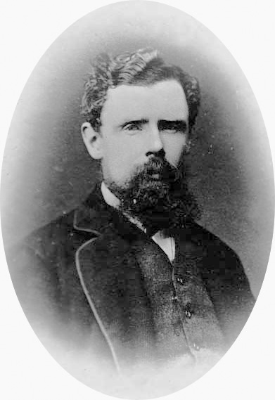 Alfred Boyd (September 20, 1835 – August 18, 1908) was a politician in Manitoba, Canada. He is usually considered to have been the first Premier of Manitoba (1870–1871), but he was not recognized by that title at the time and was not the real leader of the government..